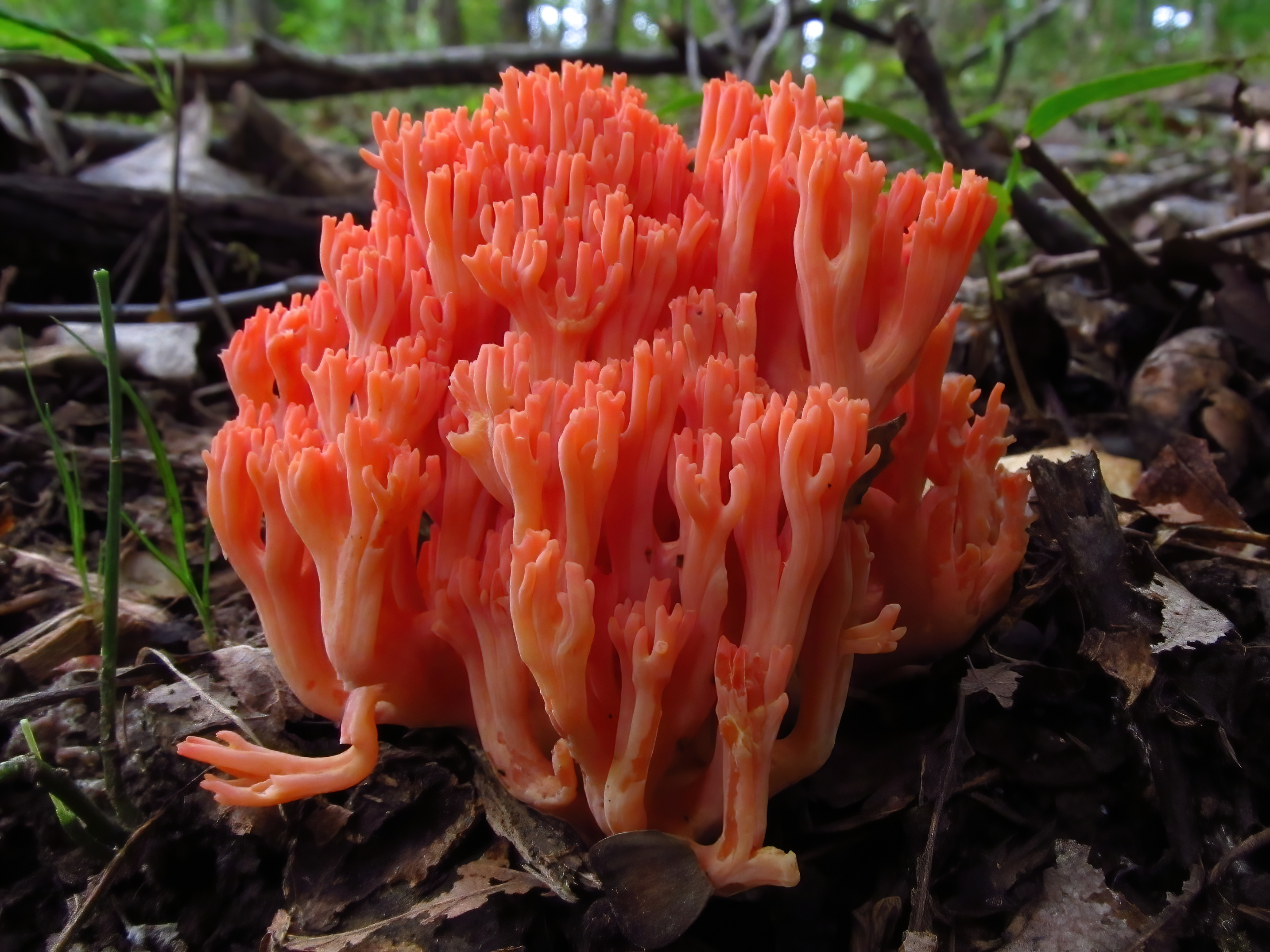 Ramaria subbotrytis Image location: The Rock Creek Regional Park, Montgomery Co., Maryland, USA I did not know we had a red one in the east…, Used references: Miller p. 349 For more information about this, see the observation page at Mushroom Observer.